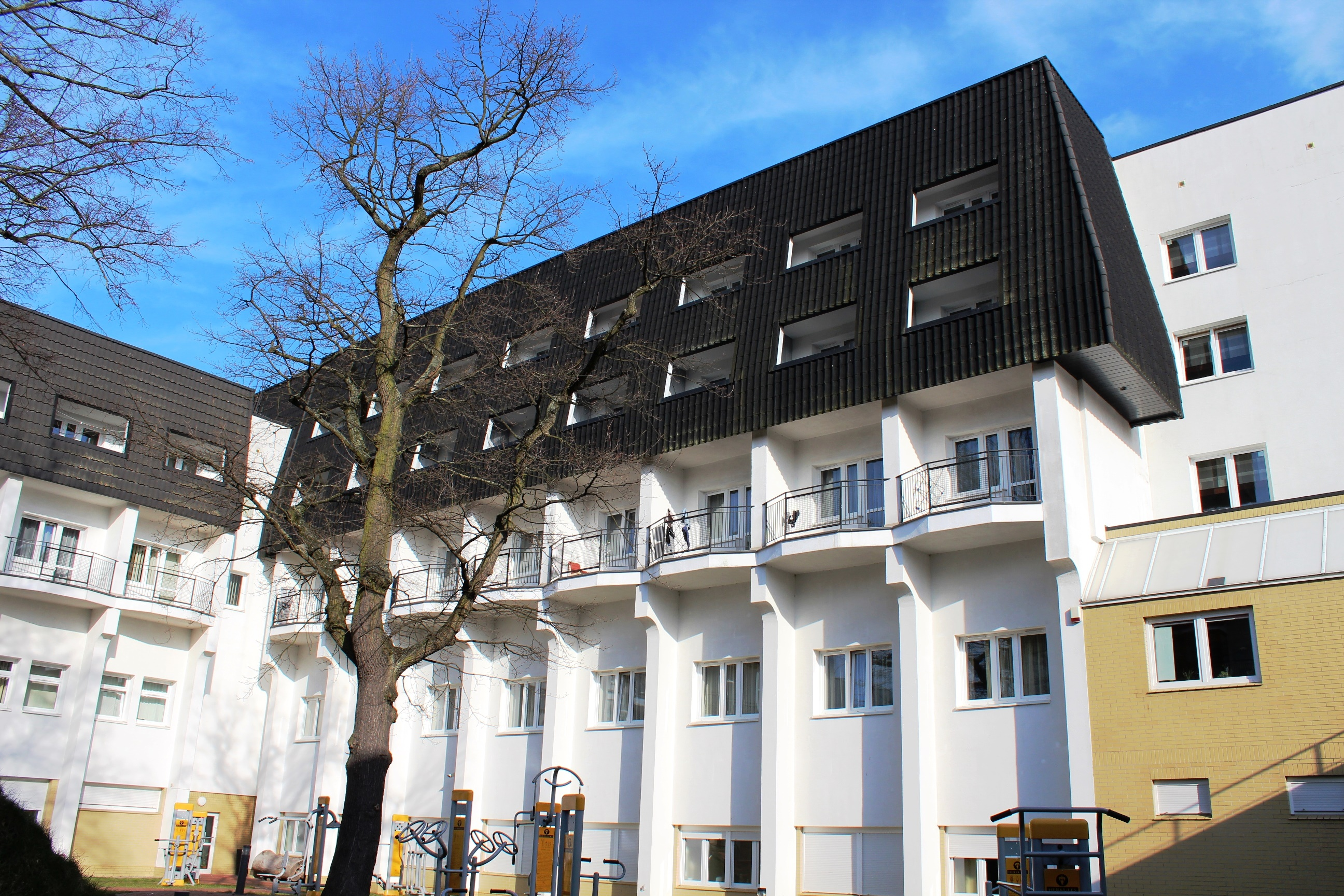 Niwa Sanatorium in Kołobrzeg